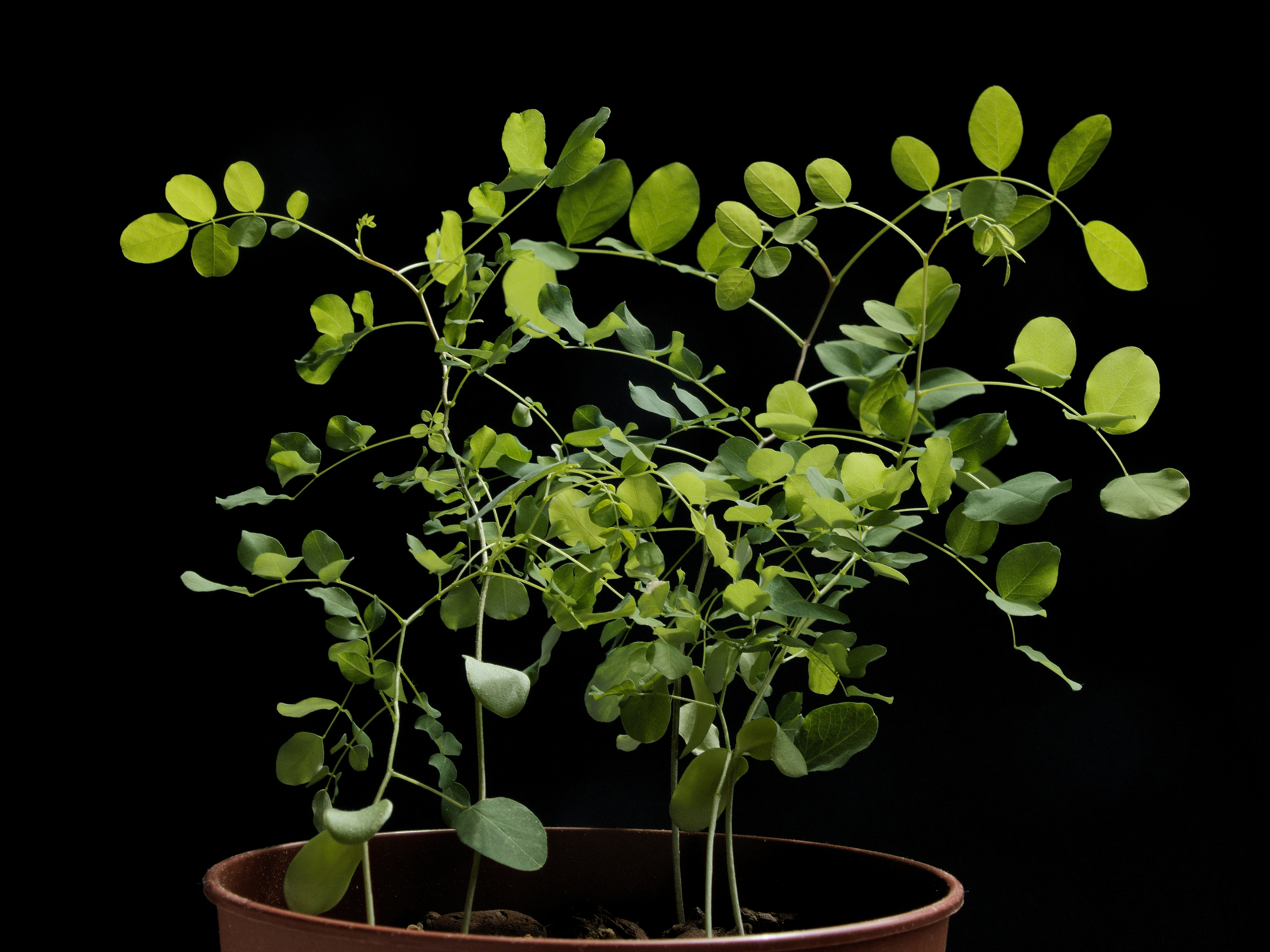 Robinia pseudoacacia L. Young seedlings of False acacia. The age of the plants is 3 months.